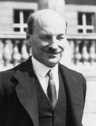 Clement Attlee meeting with King George VI in the grounds of Buckingham Palace, following the Labour victory in the 1945 general election.